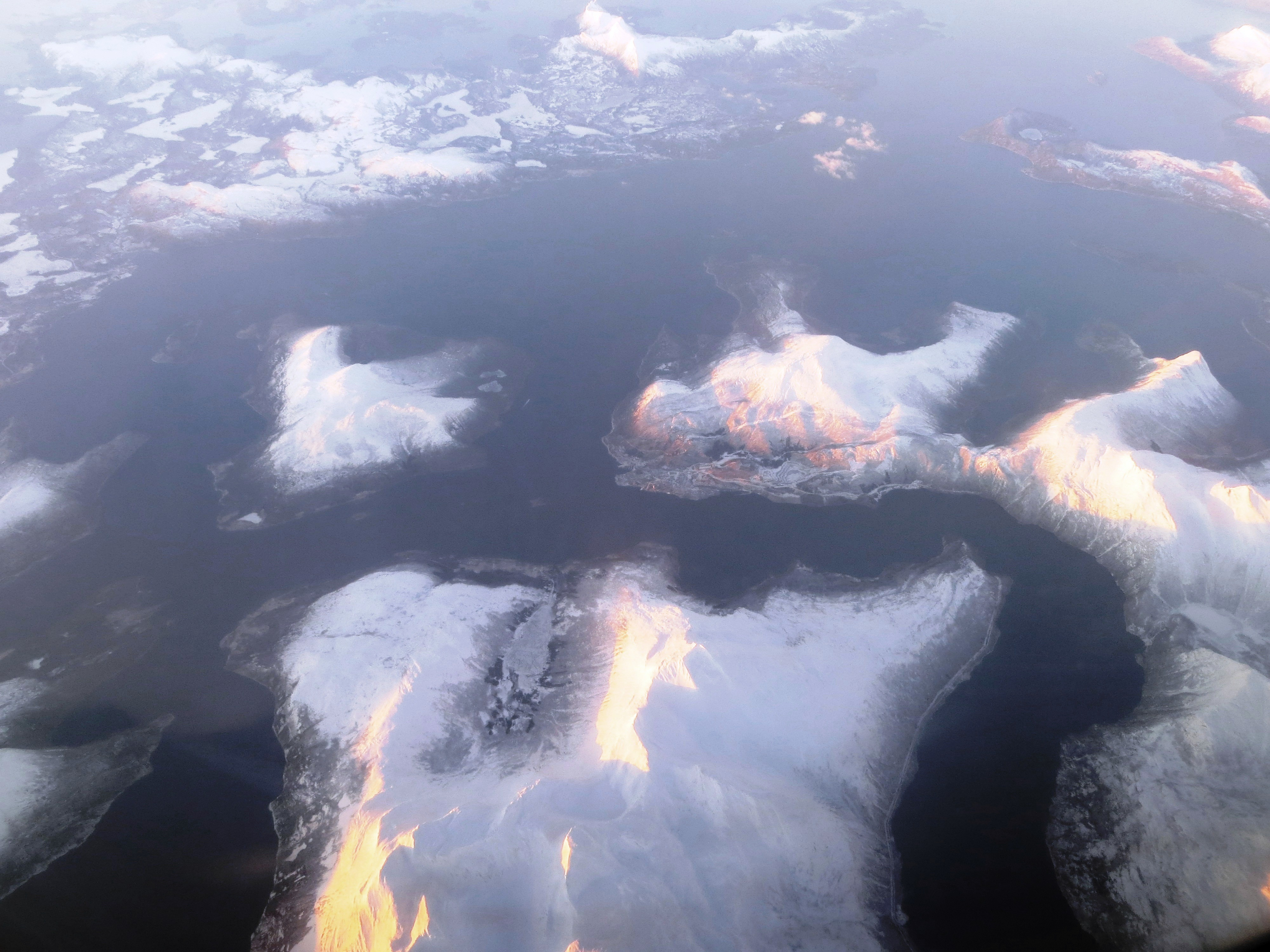 Aerial view from the east towards west, over the municipality of Tysfjord - Troms county in northern Norway